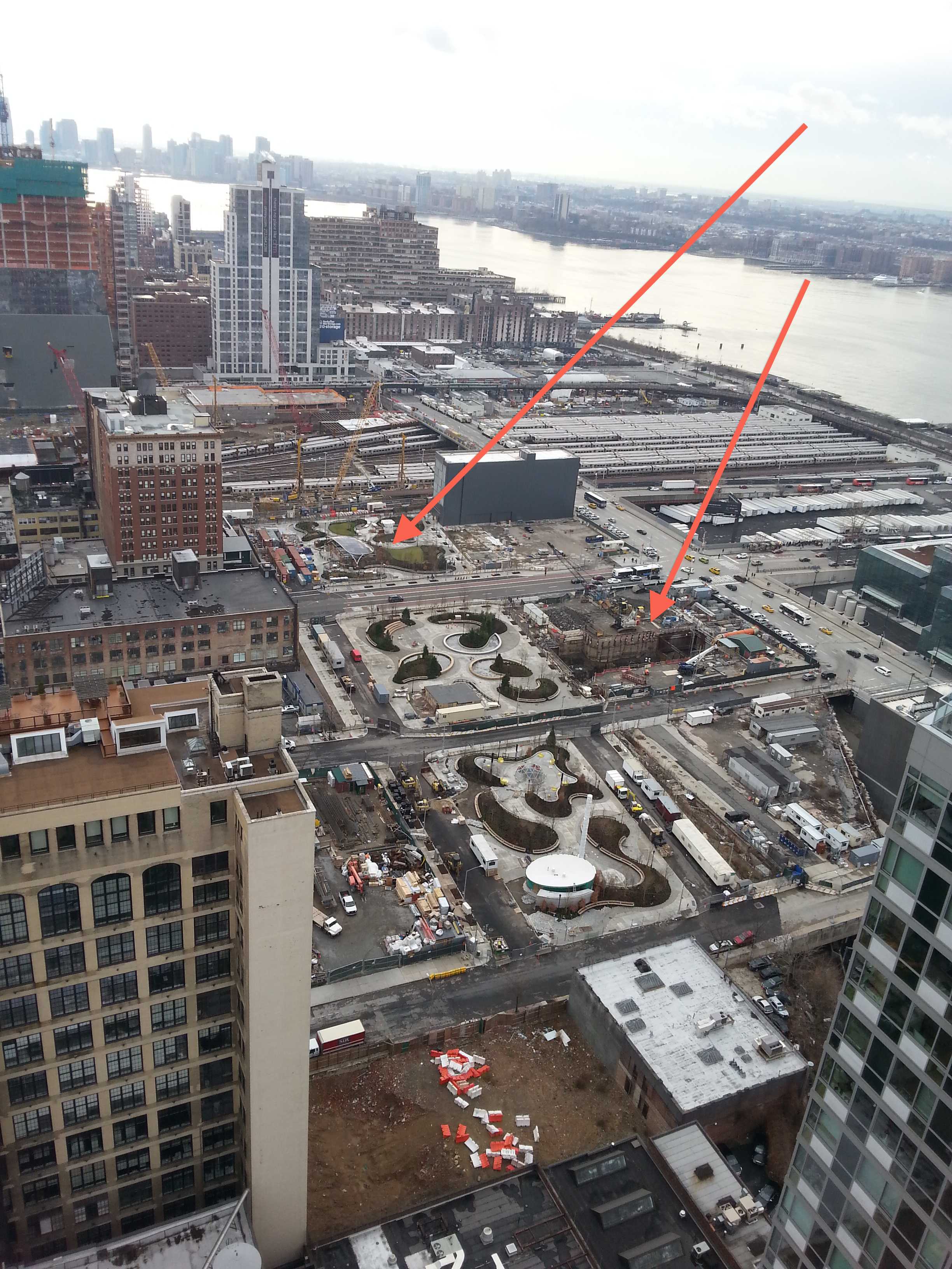 This photo was taken on December 28th, 2014 and shows the progress of construction on the 7 subway line in midtown west, manhattan.